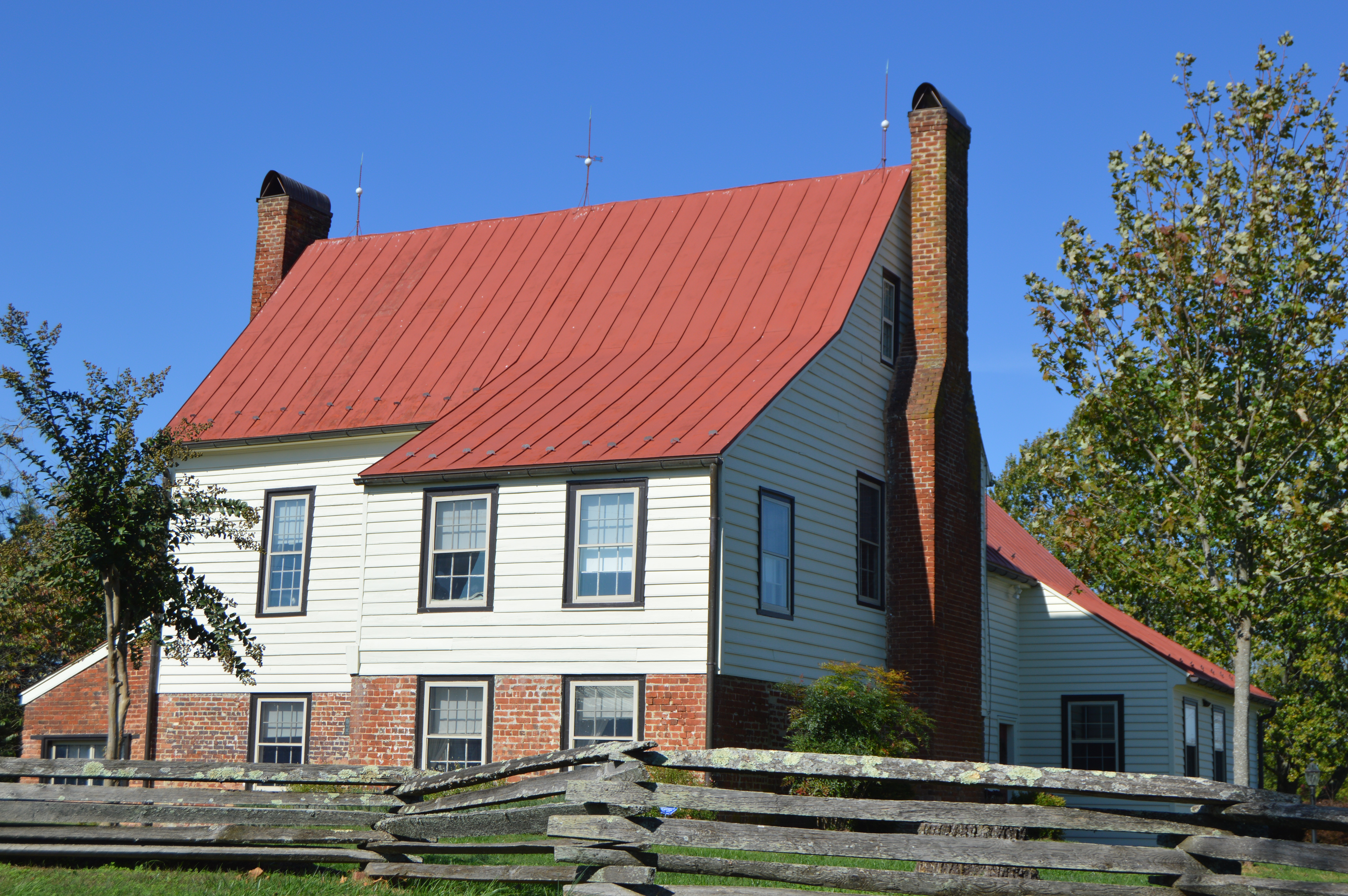 Southern side and eastern end of Burke's Tavern (now a farmhouse), located on Burke Tavern Road west of Burkeville in Nottoway County, Virginia, United States. The death-place of Thomas Alfred Smyth, it is listed on the National Register of Historic Places.